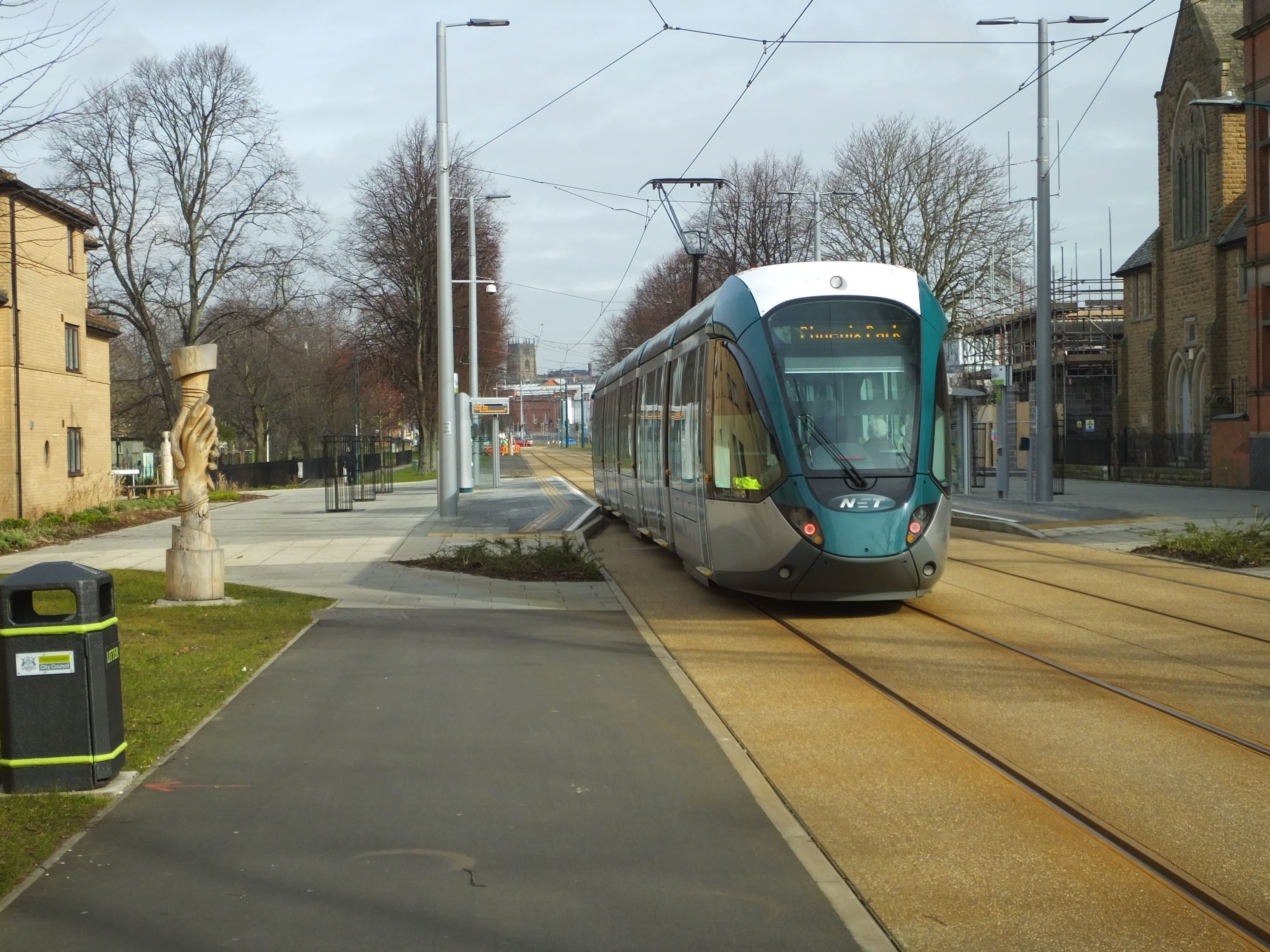 The Meadows, Nottingham (NG2) is a large Radburn style housing estate, south of the castle in Nottingham.